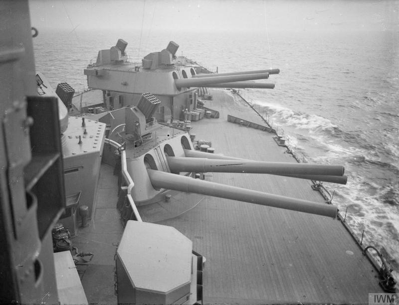 IWM caption : Looking forward from the bridge of the NELSON. On top of the 16" turrets can be seen the UP's. Comment : UP = Unrotated Projectile, an ant-aircraft rocket trialled unsuccessfully in the early stages of World War II. See also : File:16 inch gun turrets and Unrotated Projectile launchers on HMS Nelson 1940 IWM A 1995.jpg